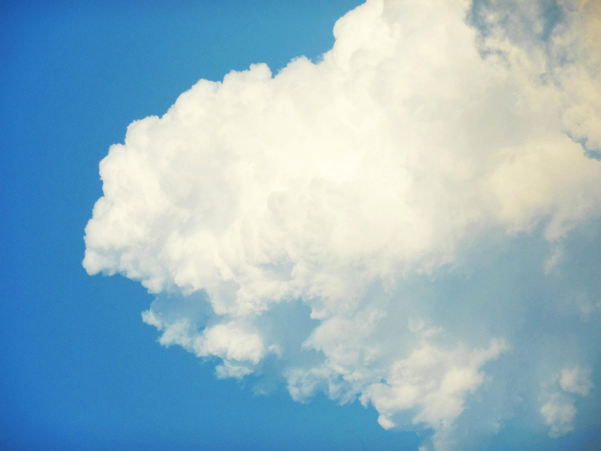 Clouds in Summer Sky in India